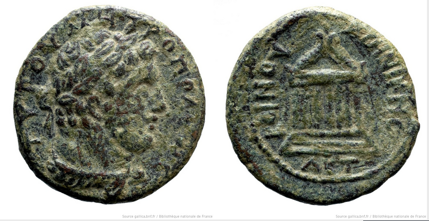 Bronze coin minted in Tyre during the reign of Roman Emperor Septimius Severus (193-211 CE): on the left the head of the Emperor wearing a laurel wreath, on the right an an Octastyle temple " TYPON ΜΕΤΡΟΠΟΛΕωΣ. Tête de l'empereur, coiffée d'une couronne de laurier .. Revers : ΚΟΙΝΟΝ ΦΟΙΝΙΚΗΣ. Temple octastyle ; dans le champ inférieur AKTI."